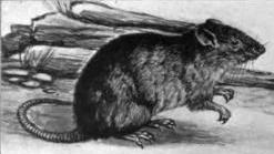 Diagram of the oryzomyine rodent Oryzomys molestus (current name combination Oryzomys albiventer).